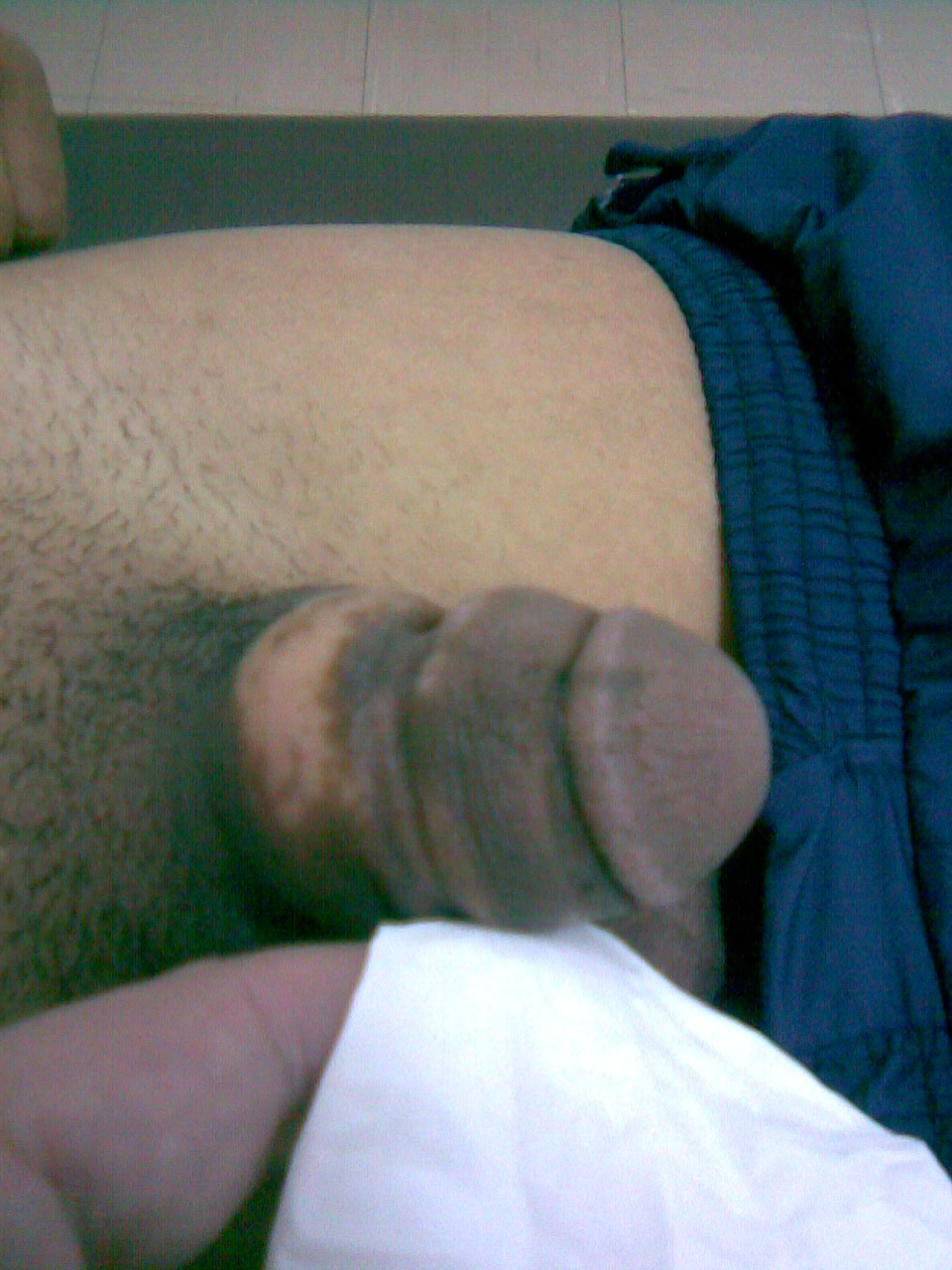 Penis deformity after intra-urethral liquid paraffin administration (paraffinoma). Patient´s age: 30